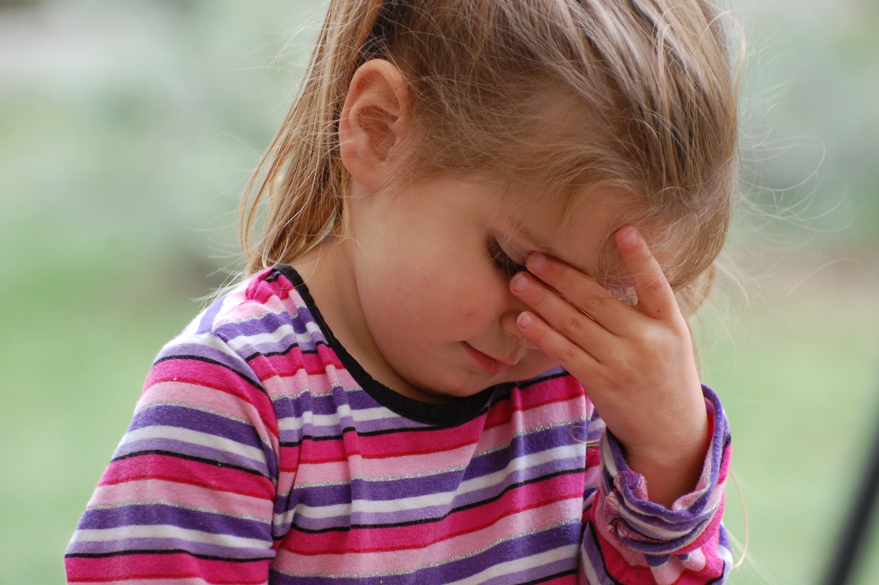 Girl with a headache